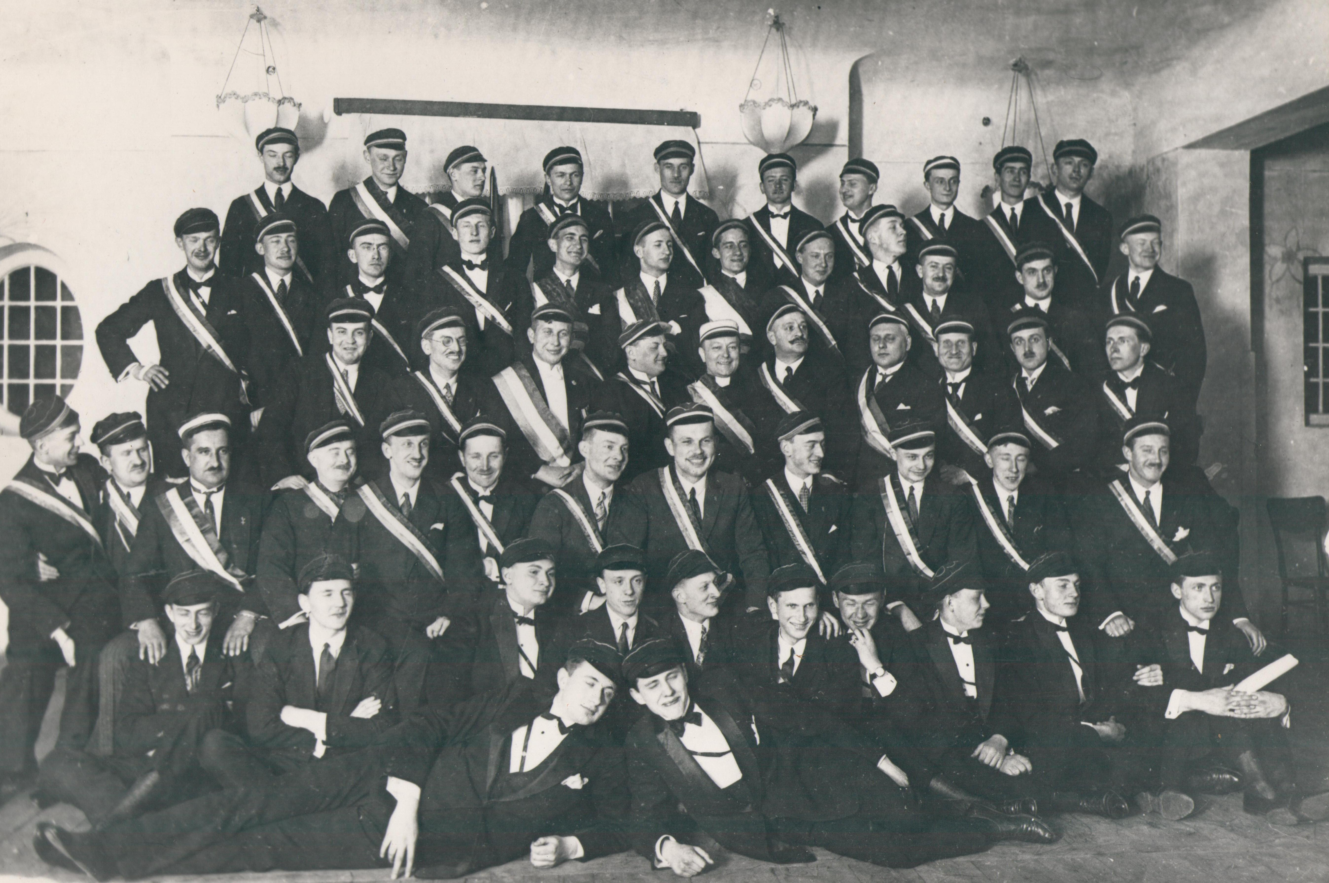 Corporation Sarmatia - Warsaw, Poland 1928